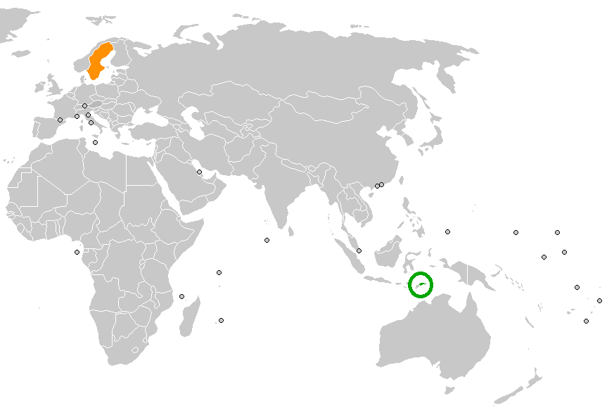 East Timor Sweden locator map